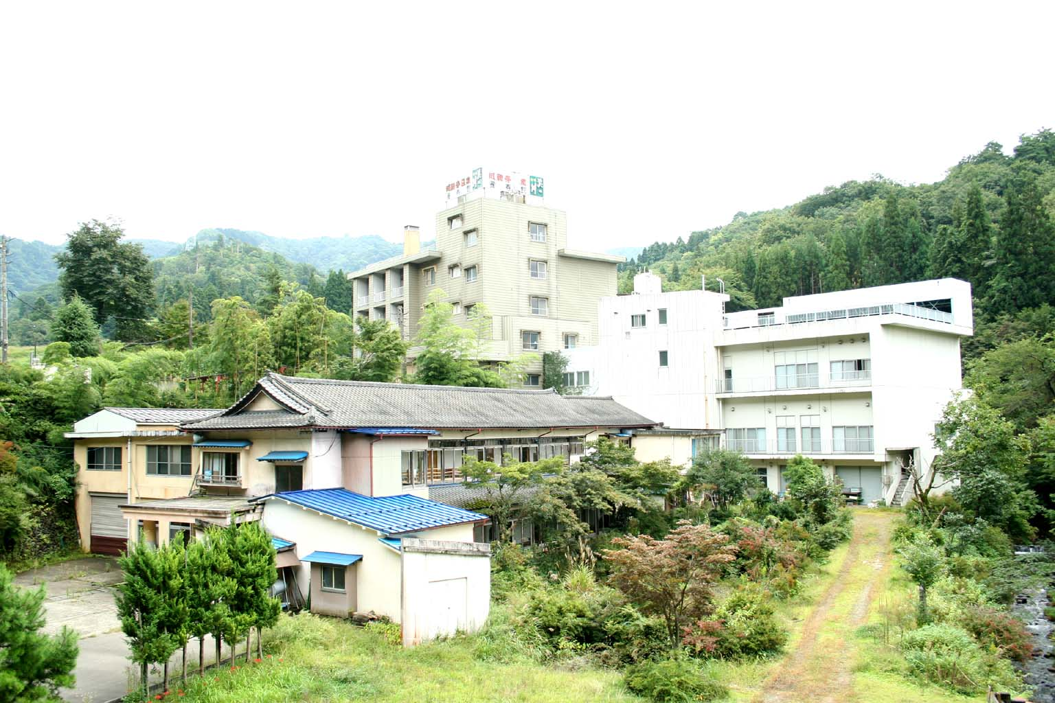 Joganji Onsen in Nagaoka city, Niigata, Japan